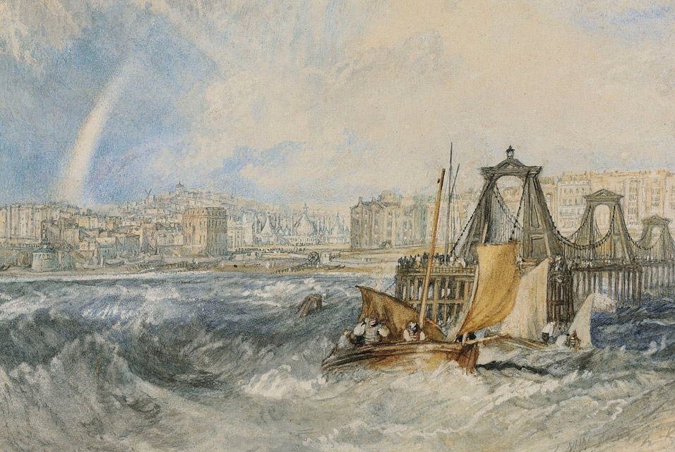 The Chain Pier at Brighton, Royal Pavilion